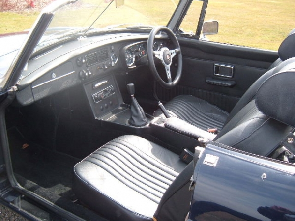 MGB Roadster 1972 Interior_left